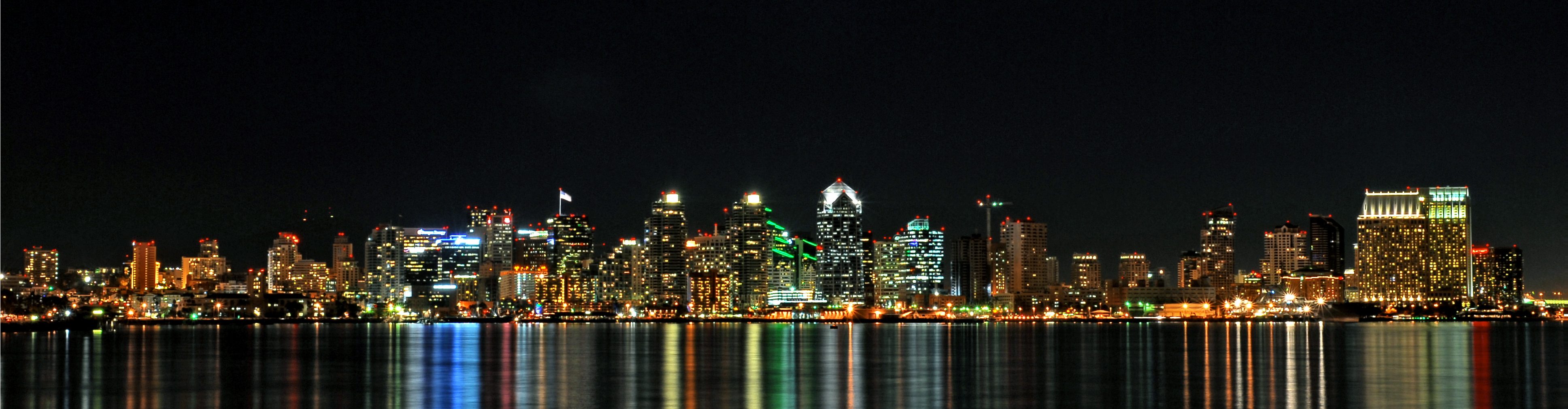 San Diego Wide angle Panorama From Shelter Island Rufustelestrat 20:16, 7 November 2006 (UTC)